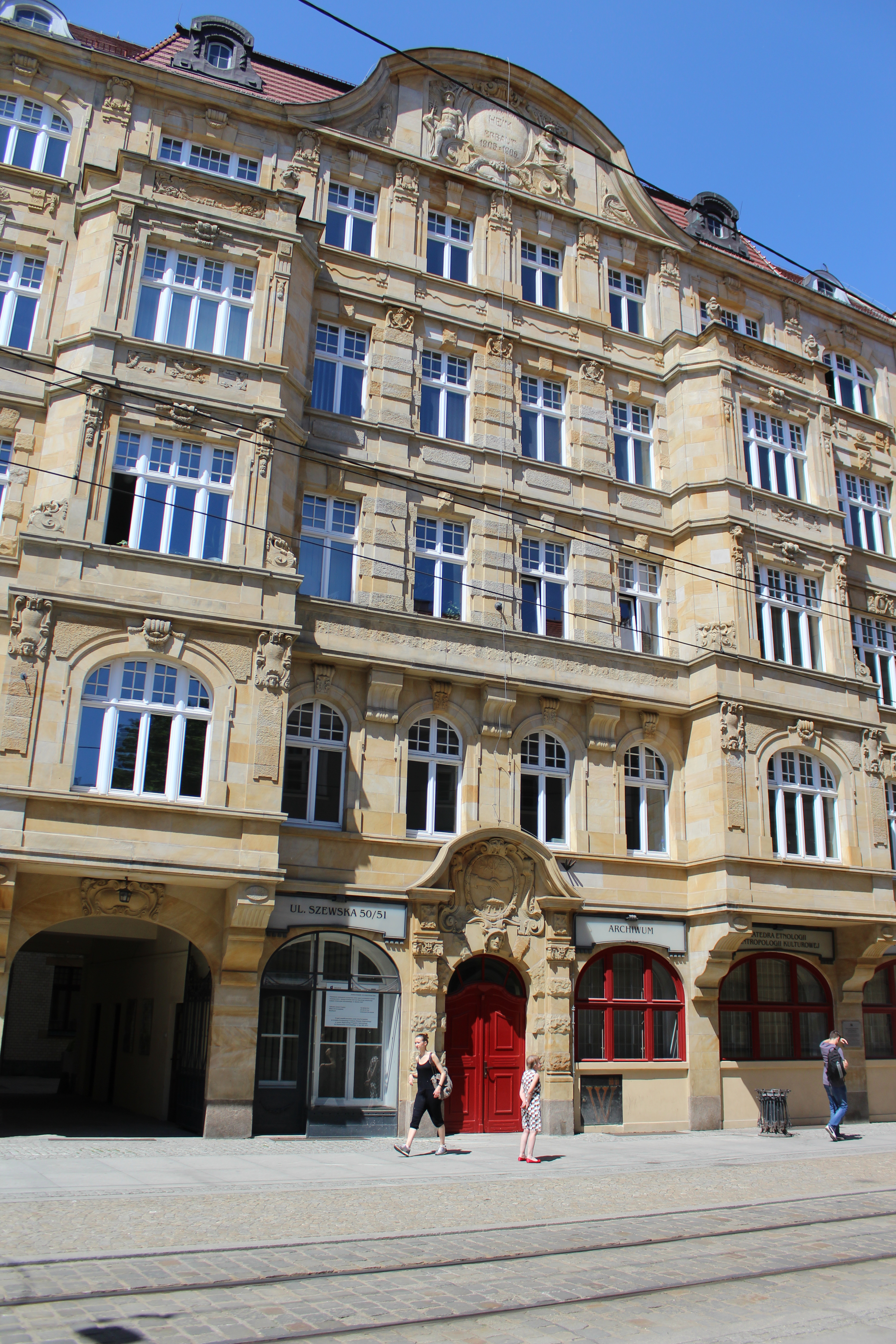 Front view of the building in which Department of Ethnology and Cultural Anthropology of University of Wroclaw is placed, at Szewska 50/51, 50-139 Wrocław.